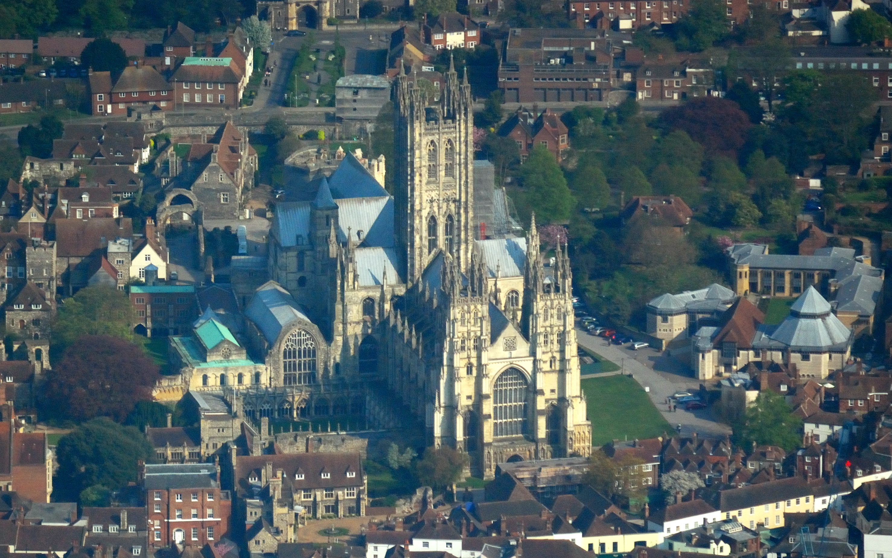 Aerial view of Canterbury Cathedral from the West (main gate). Nikon D60 f=200mm f/7.1 at 1/3200s ISO 800. Processed using Nikon ViewNX 1.5.2 and GIMP 2.6.6.